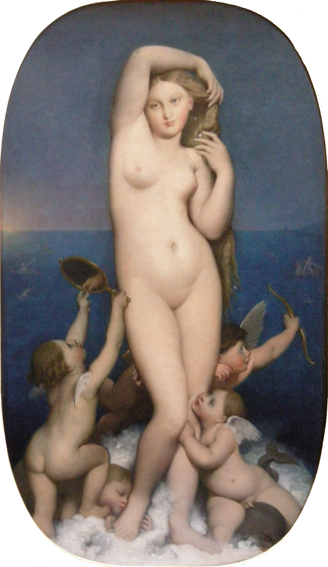 Venus Anadyomene (Ingres)